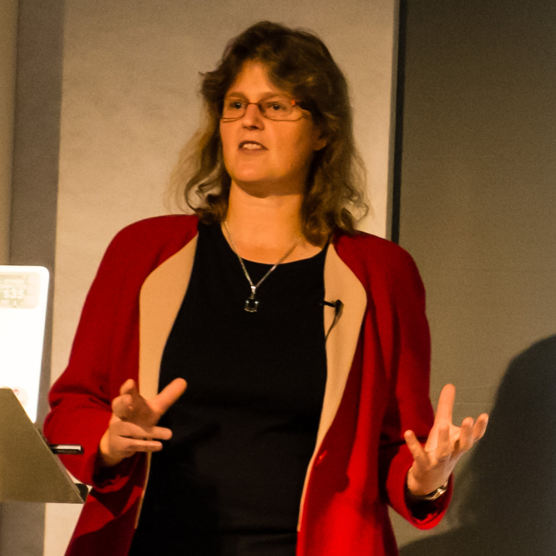 Thingmonk: Wiring the IoT - Dr Lucy Rogers